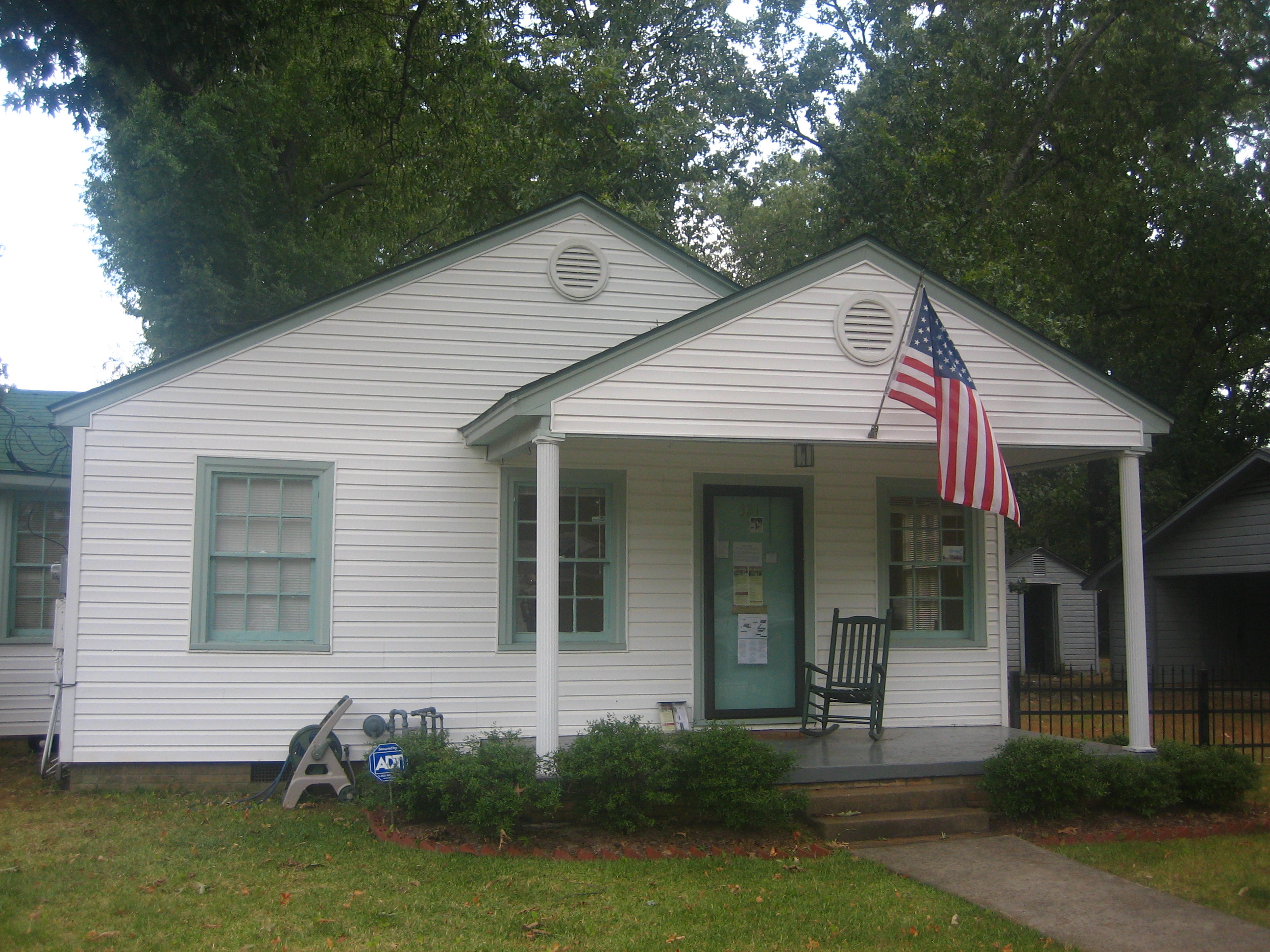 This is the boyhood home of Bill Clinton, the 42nd president of the United States of America.